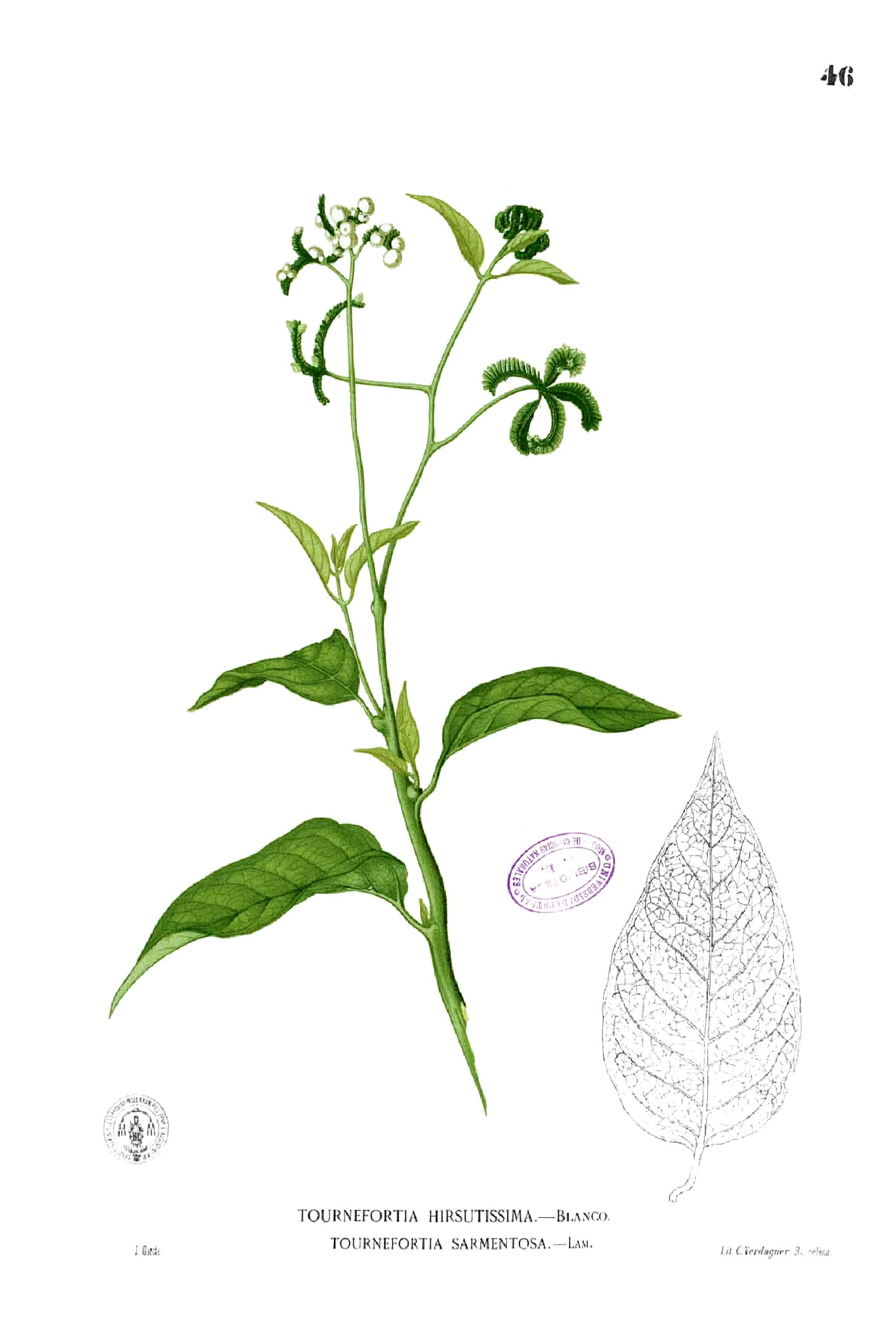 Plate from book